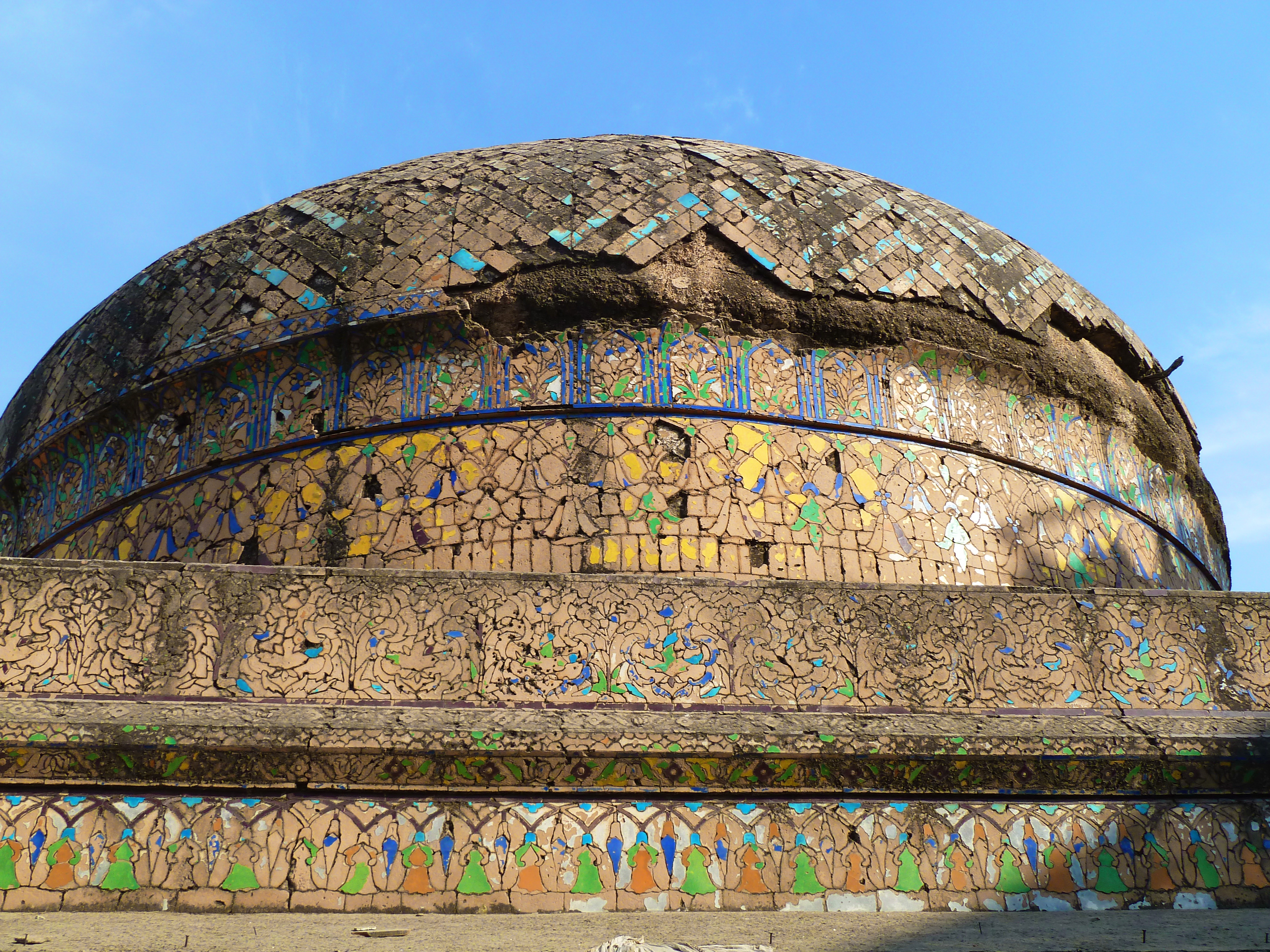 A view of the dome of Jani Khan's tomb, Baghbanpura Lahore. This is a photo of a monument in Pakistan identified as the PB-65